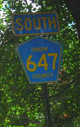 Union County Route 647 in Union County, New Jersey